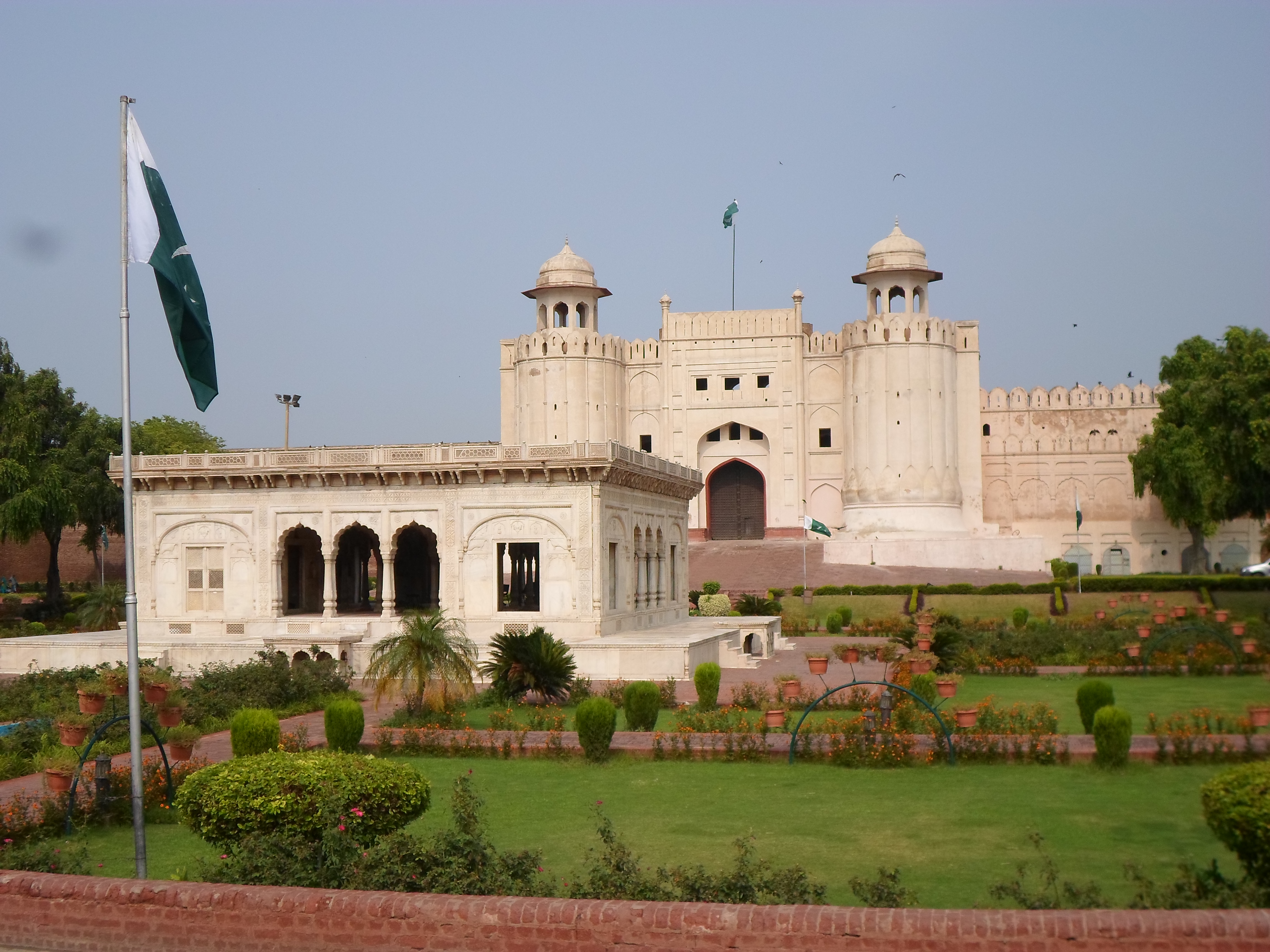 Lahore Fort This is a photo of a monument in Pakistan identified as the PB-67